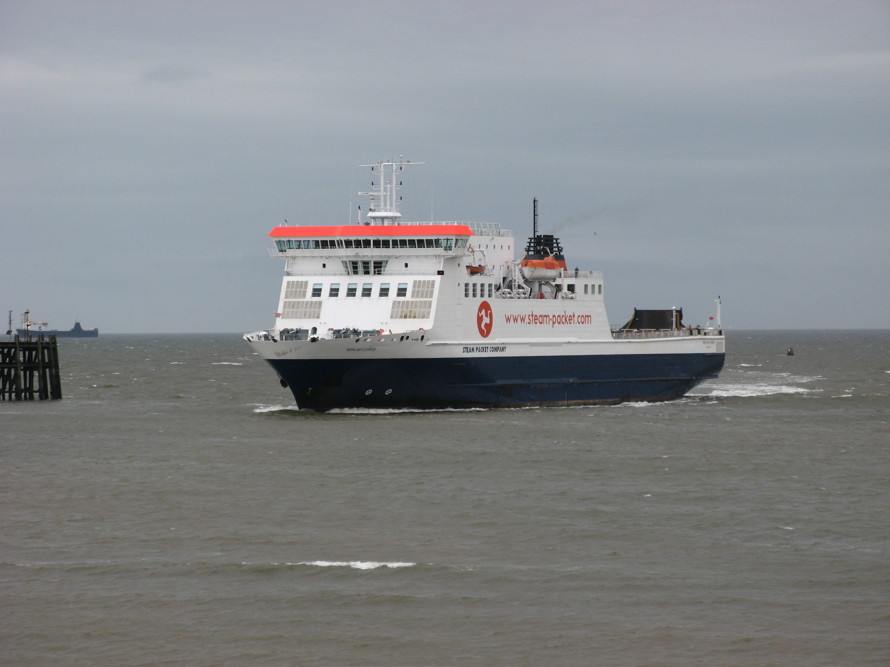 Isle of Man Steam Packet Company ferry Ben-my-Chree approaching the entrance of Heysham Harbour.